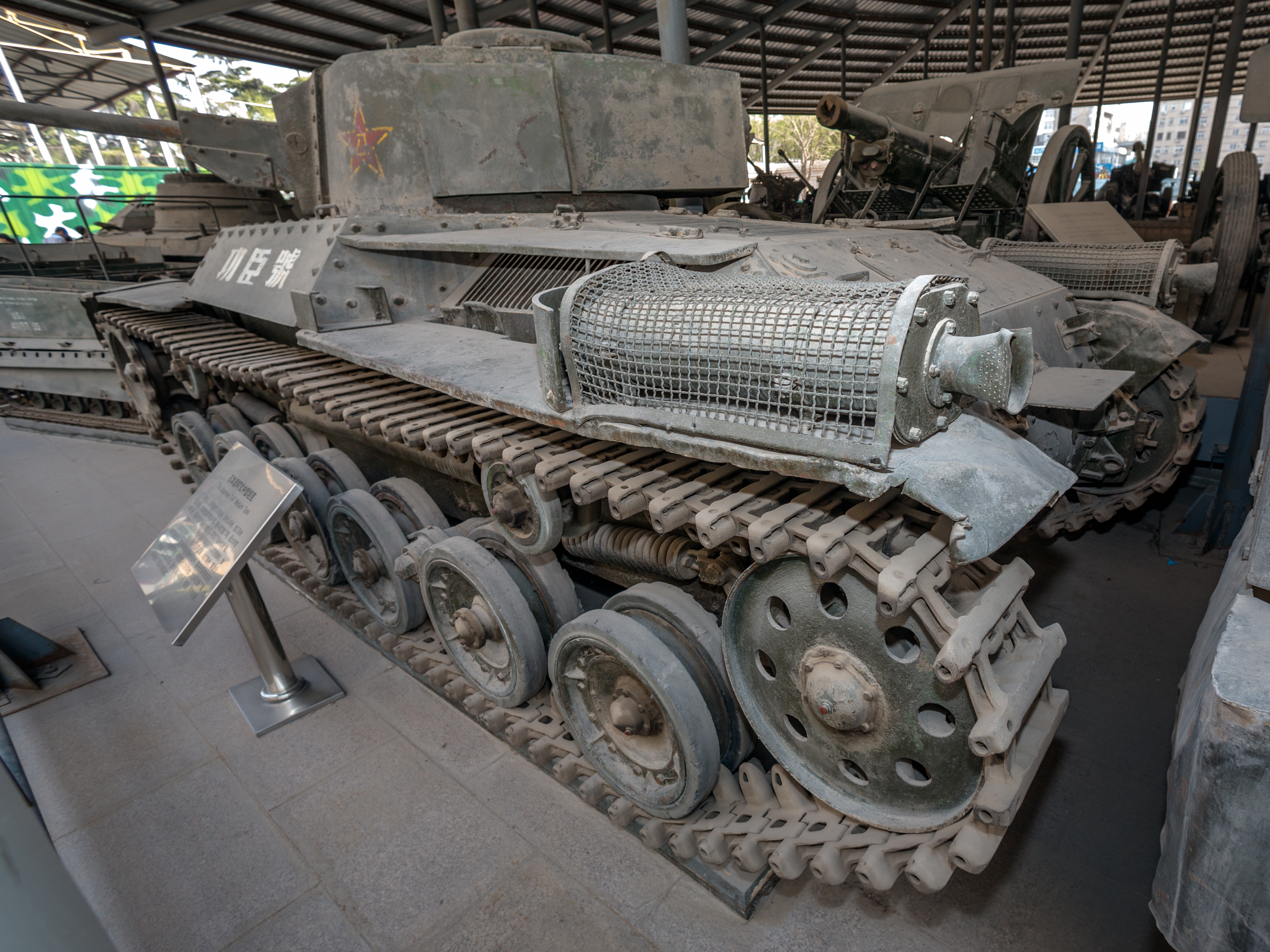 Gongchen tank